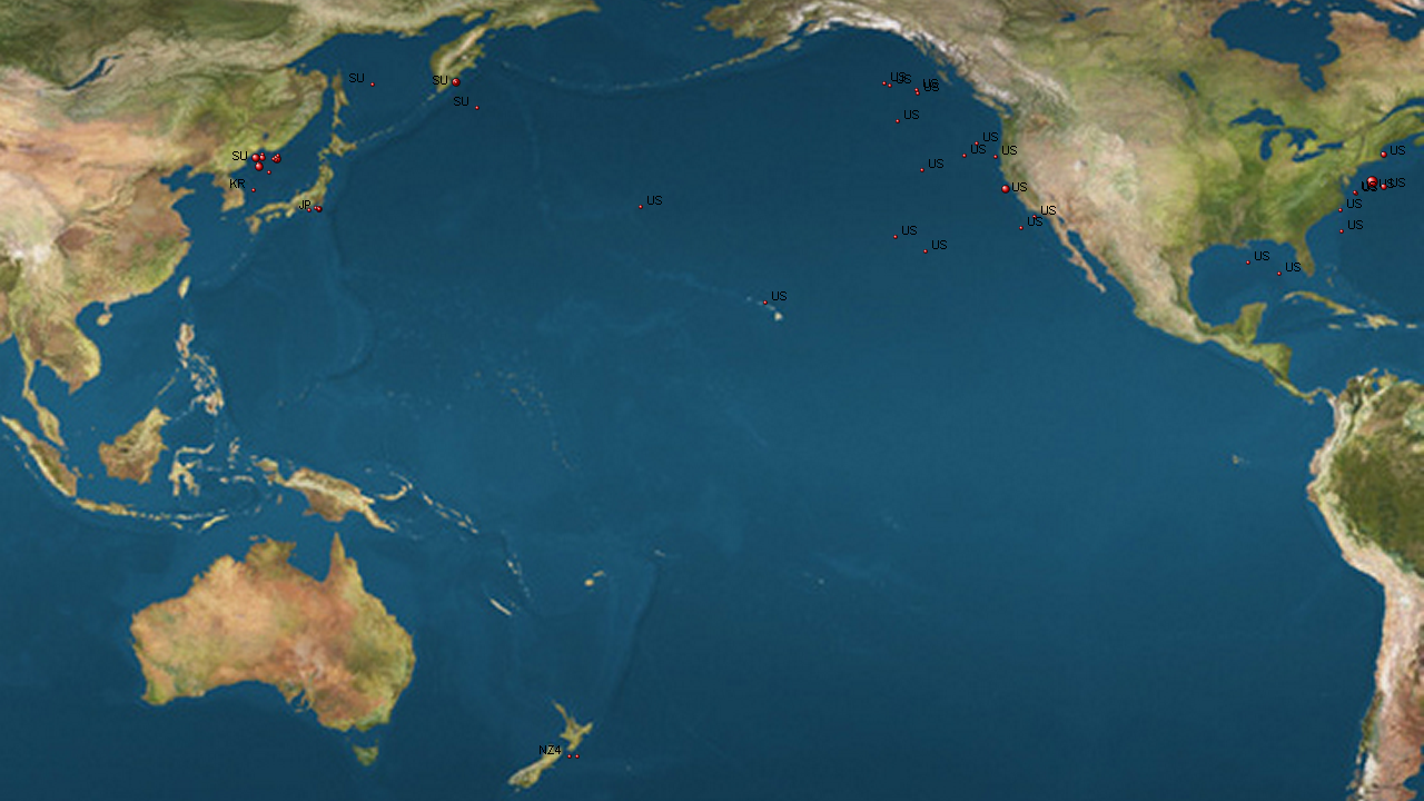 JP=Japan (15.1TBq), KR=South Korea (?TBq), NZ=New Zealand (1+TBq), RU=Russia (2.1TBq), SU=USSR (874TBq), US=USA (554TBq). source=IAEA_tecdoc_1105